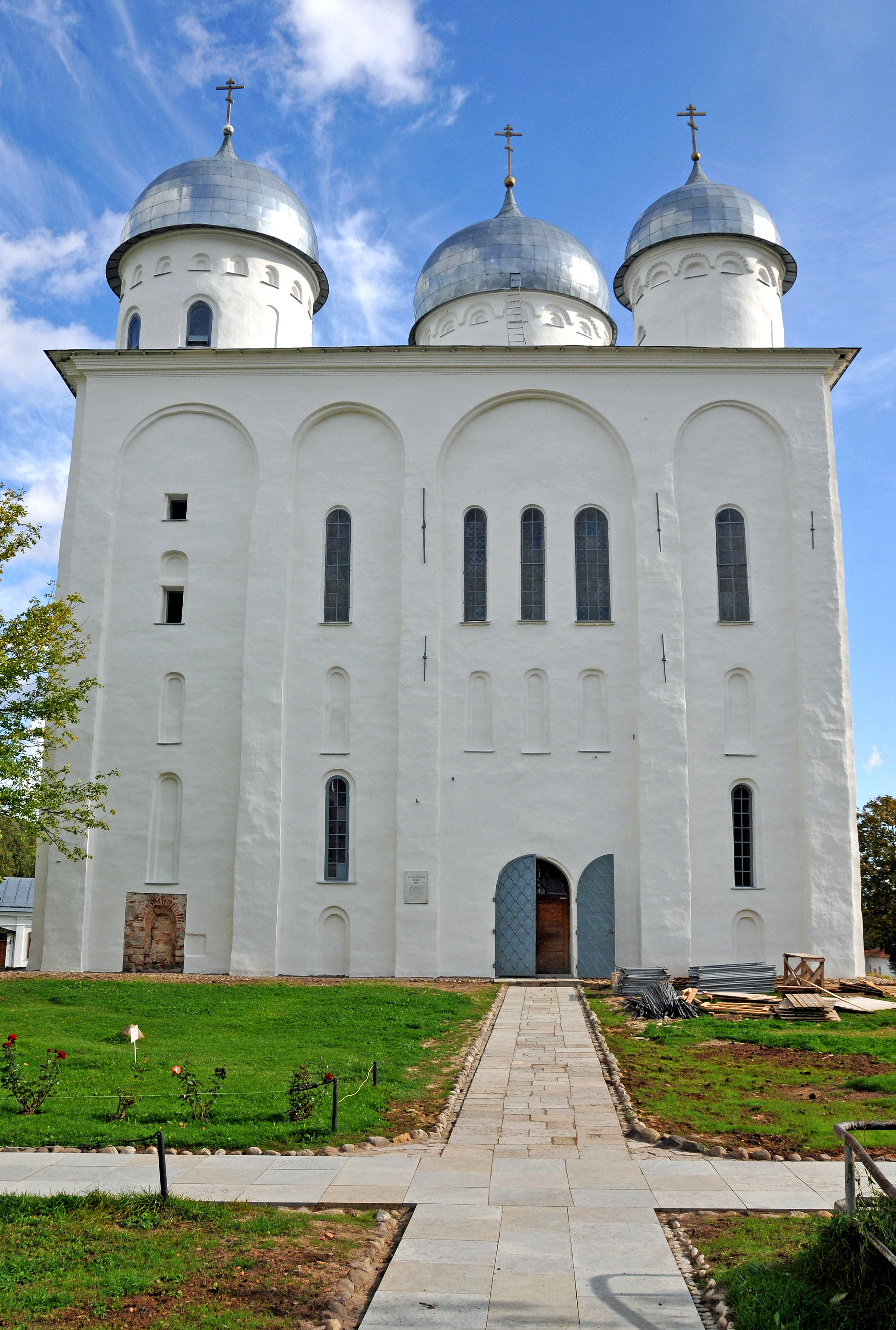 St. George Cathedral built in 1119. It is one of the largest in Novgorod and its immediate area. It is 105 feet tall white-stone church 85 feet long by 75 feet wide with three silver domes, which is somewhat unusual for Russian churches which usually have five (the main dome representing Christ, the four smaller ones representing the evangelists). Some remnants of the medieval frescoes remain, but most of the church was refrescoed in 1902.